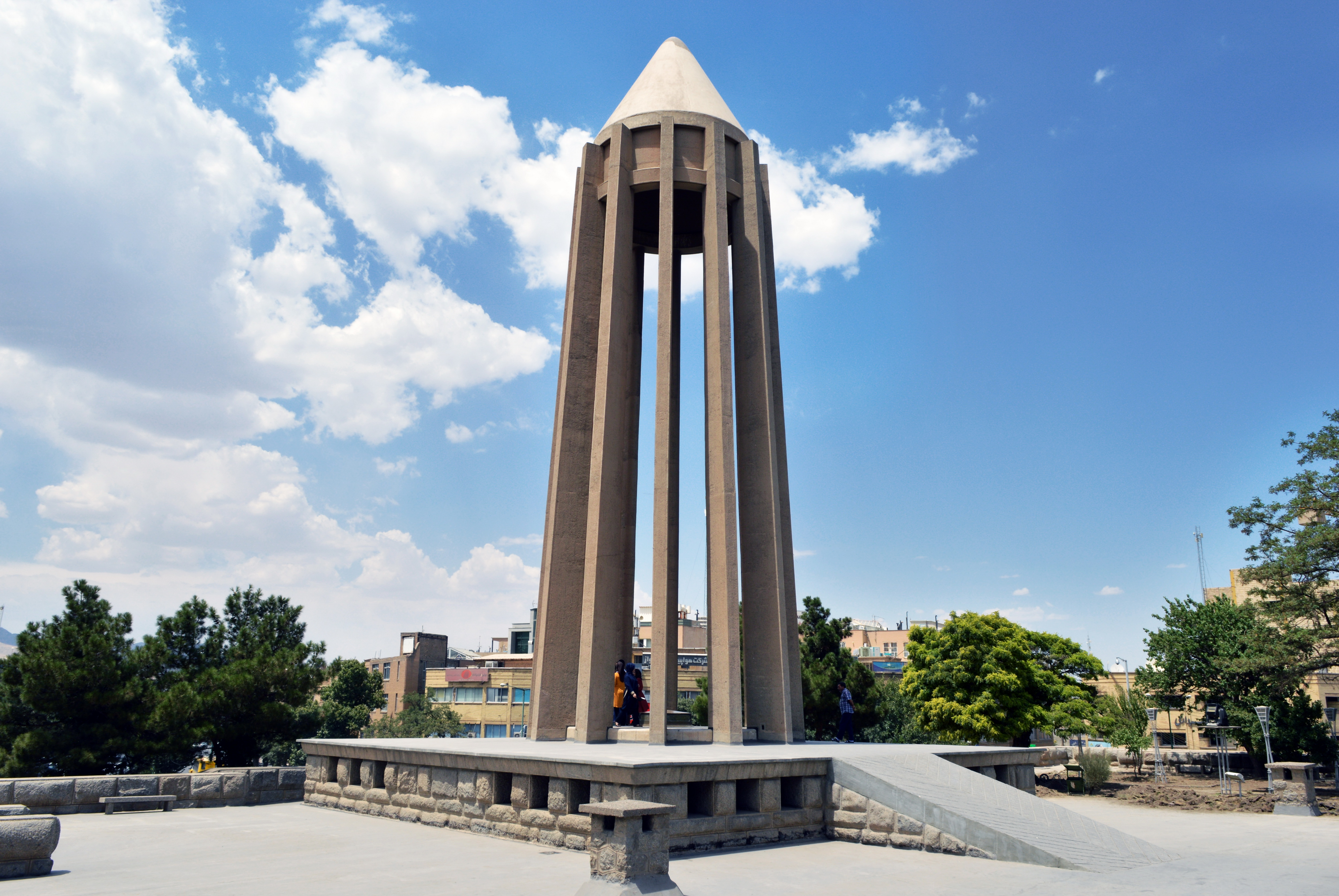 Aboo AliSina Tomb